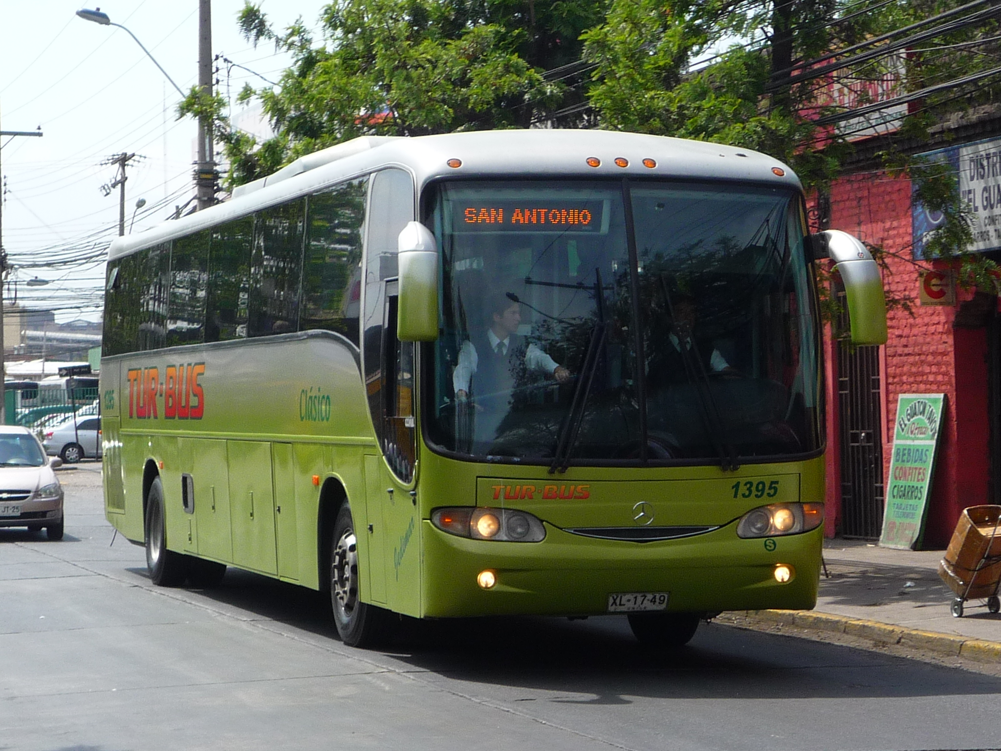 This bus is the same model of the Bus was crashed in 2010.